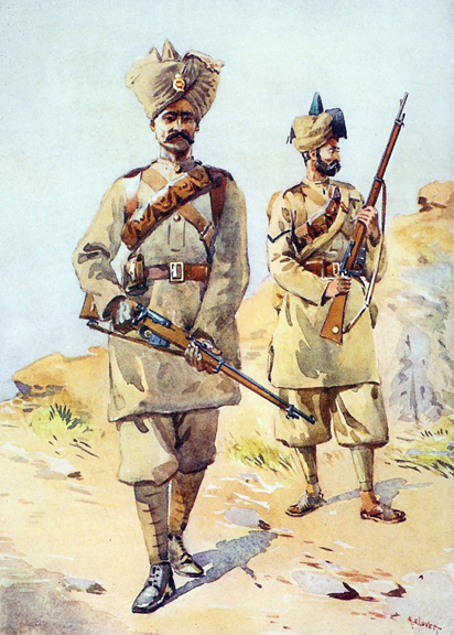 30th and 20th Punjabis. Watercolour by Major Alfred Crowdy Lovett, 1910. Published in MacMunn & Lovett, Armies of India, 1911.